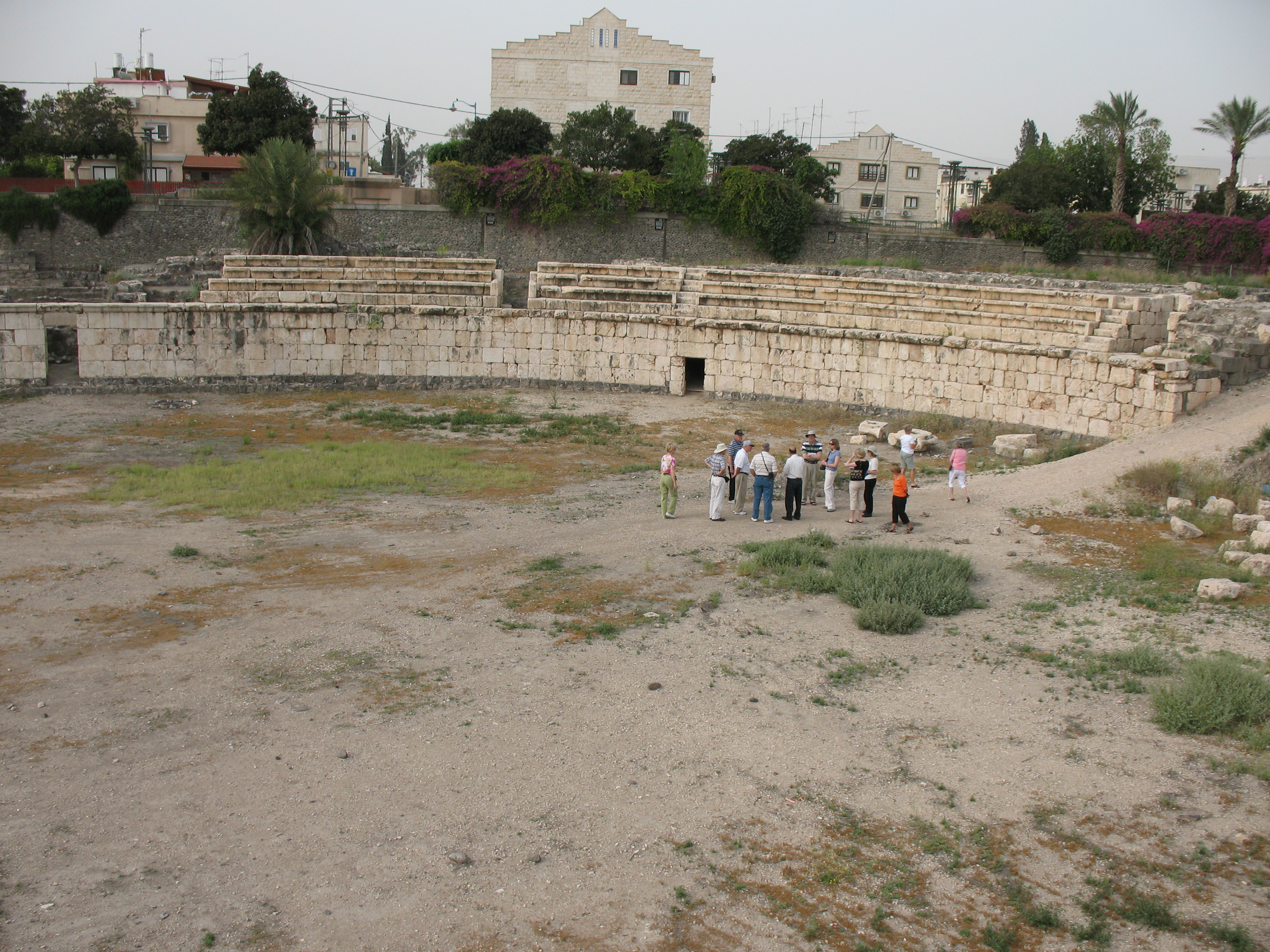 Bet She'an amphitheater